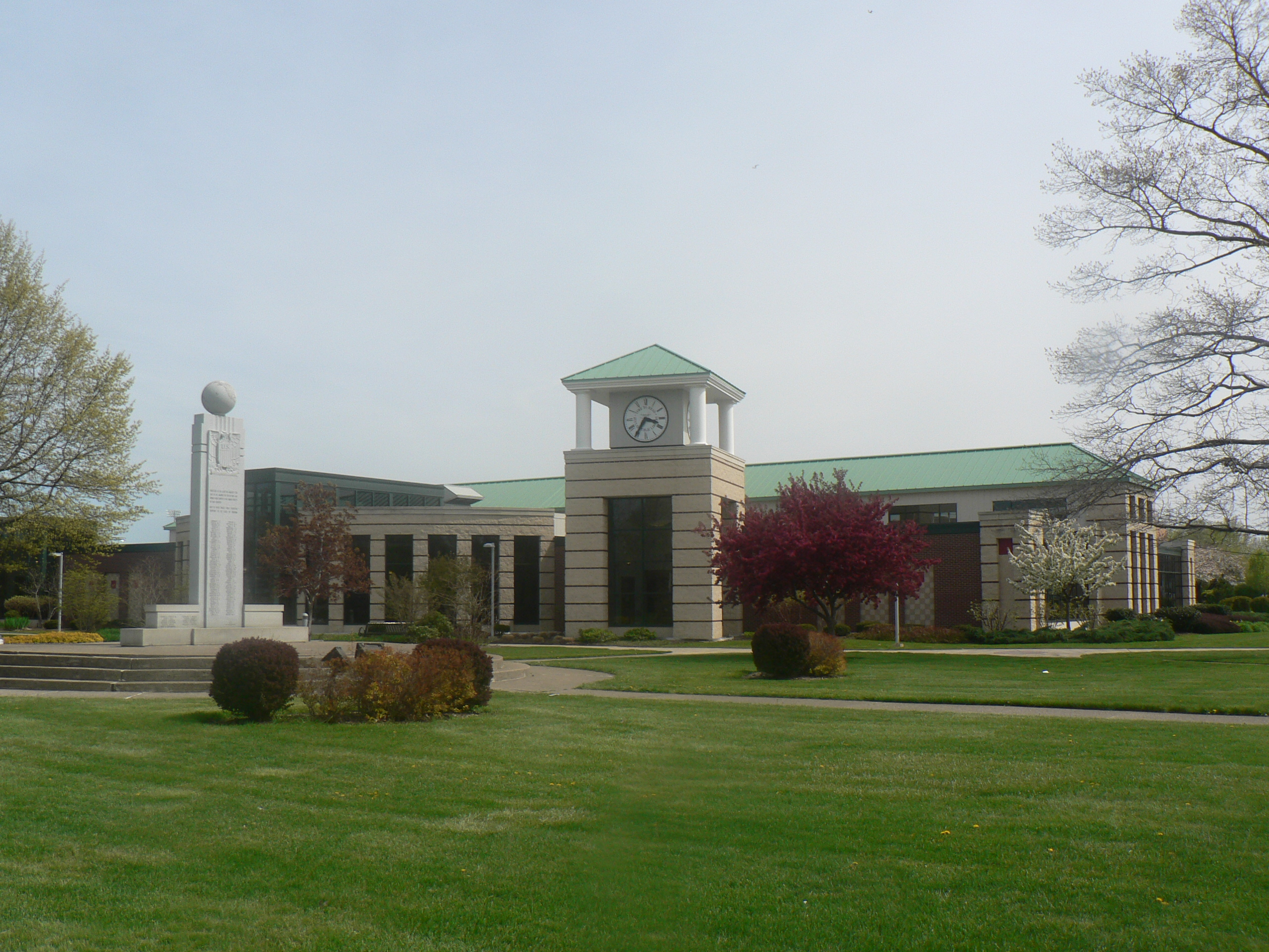 Euclid city library, Ohio, United States.